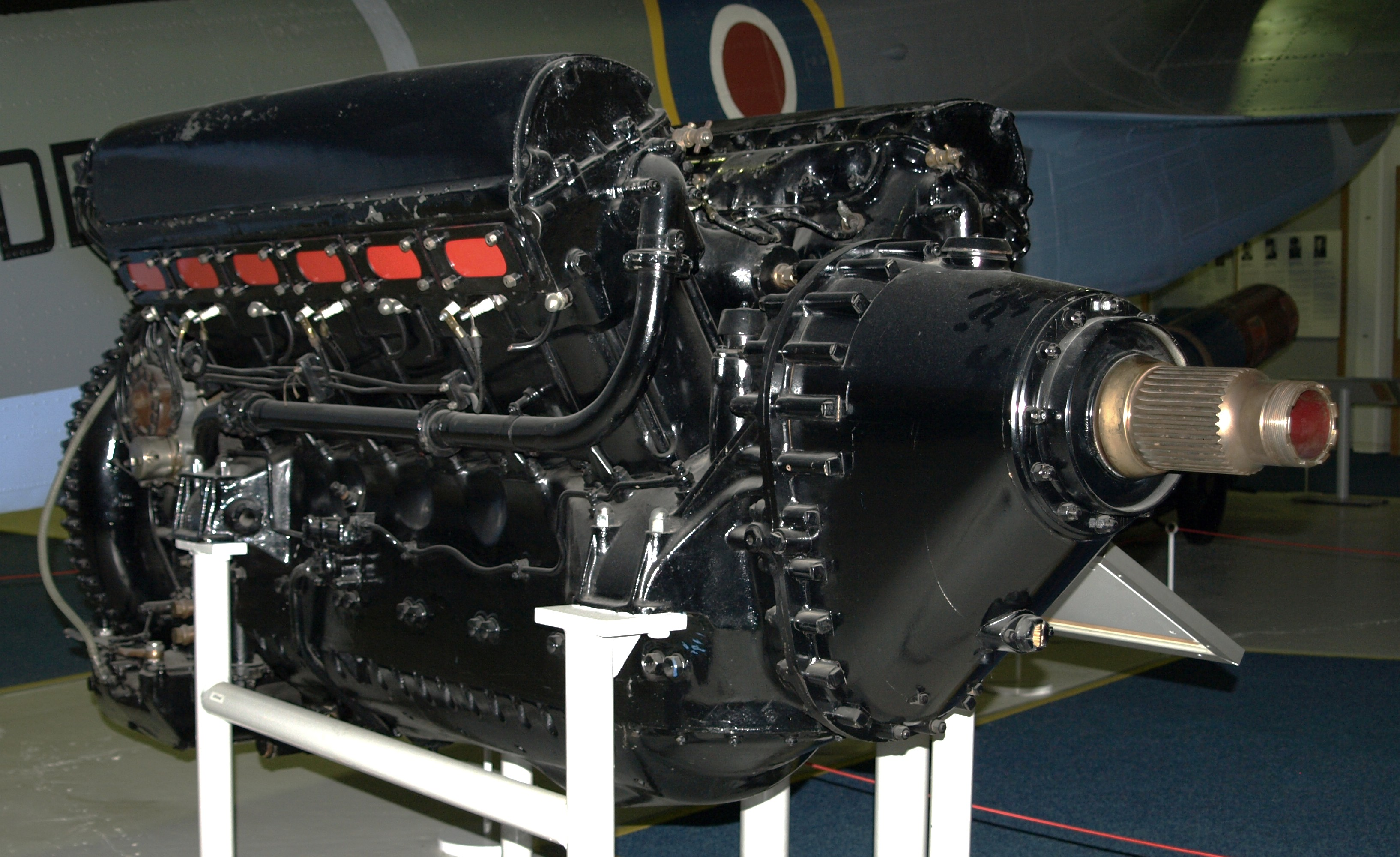 Rolls-Royce 'R' aero engine at the Royal Air Force Museum, Hendon.